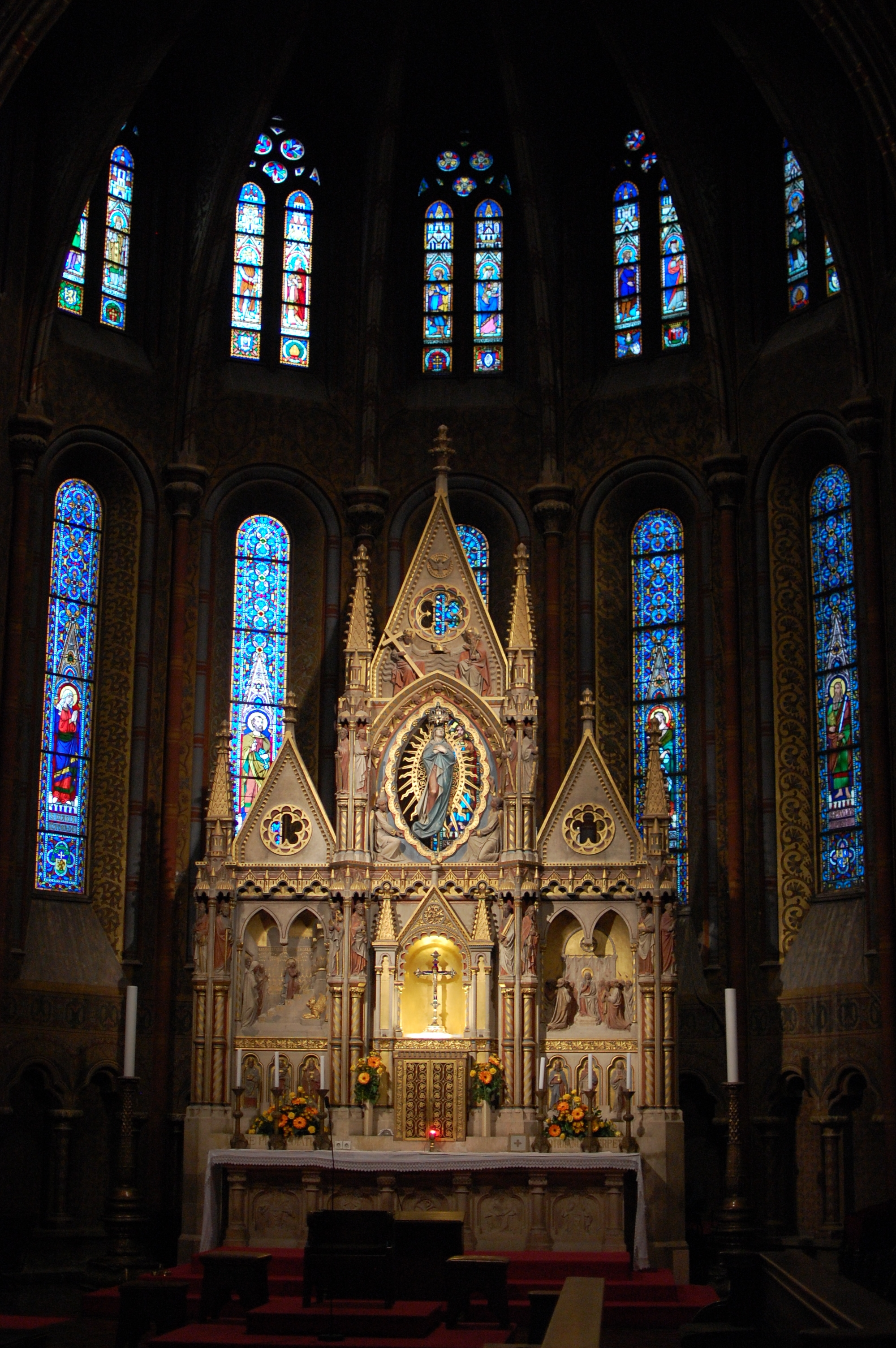 Matthias Church